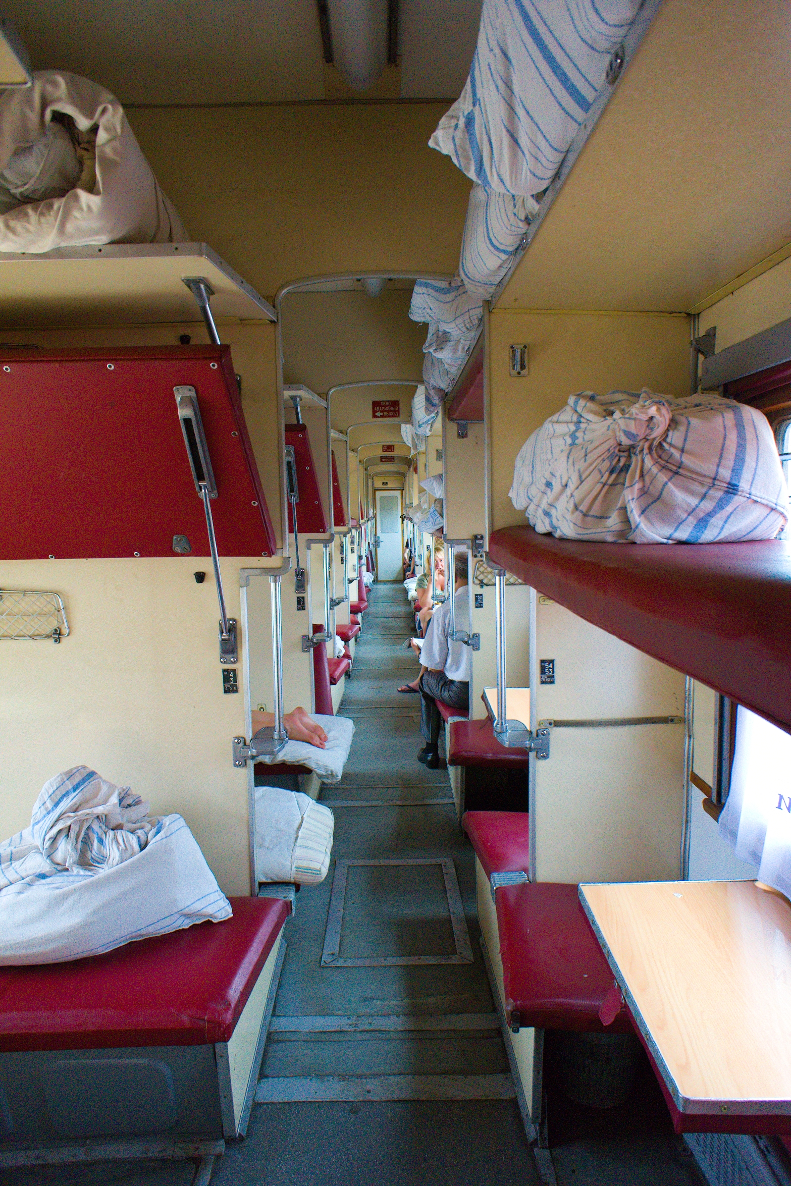 Platskart is 3rd class dorm bed sleeping train with 54 beds.